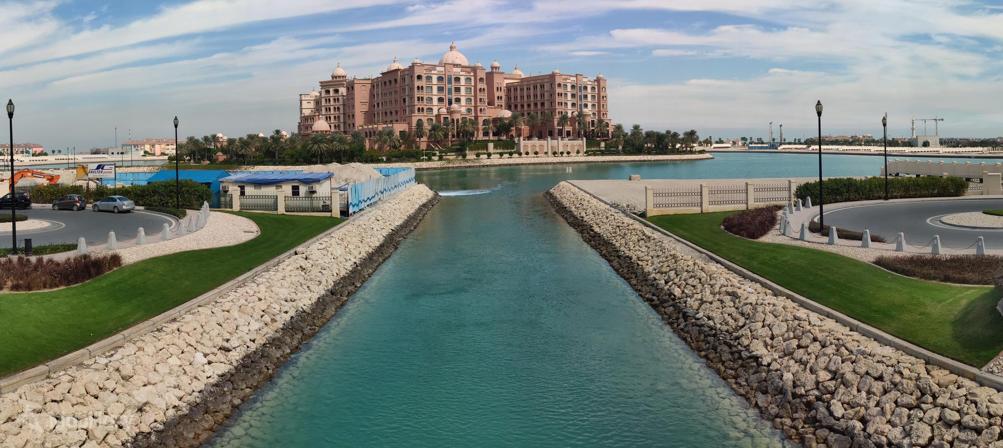 View of Marsa Malaz Kempinski from Pearl Boulevard in The Pearl-Qatar.